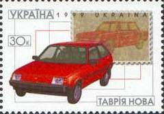 Stamps of Ukraine, 1999